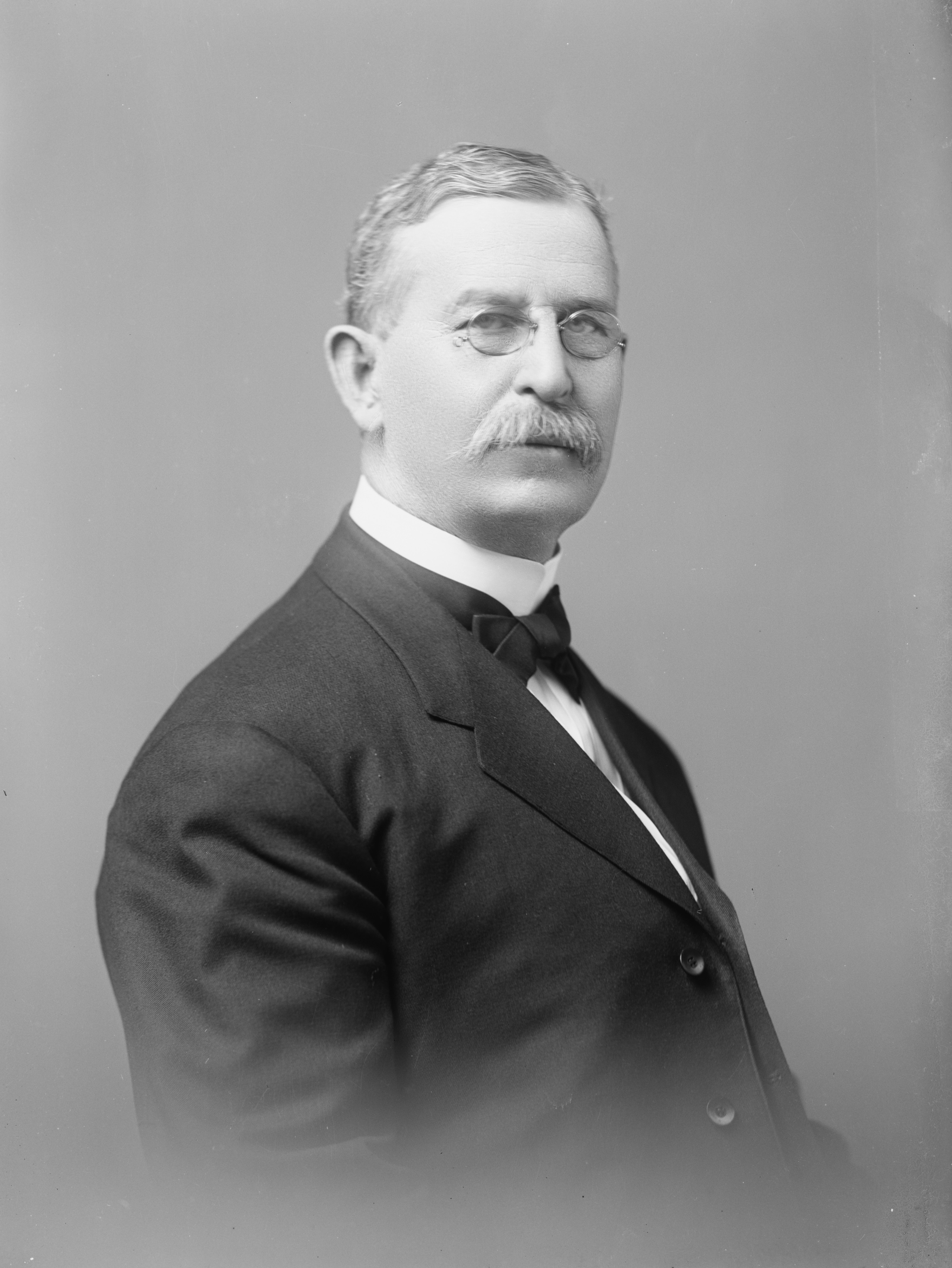 Thomas Alexander Smith by C. M. Bell Studio